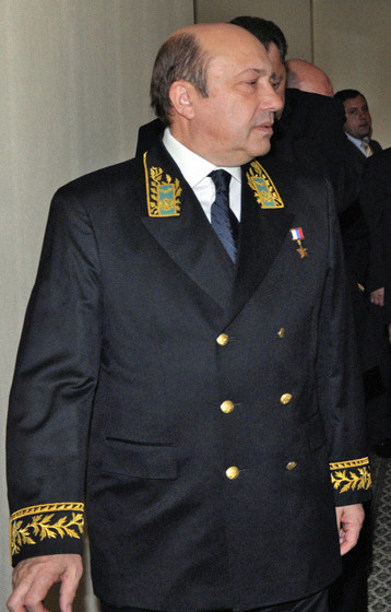 From left: former Russian Foreign Ministers Igor Ivanov at a reception on Diplomat Day at the Russian Justice Ministry. *